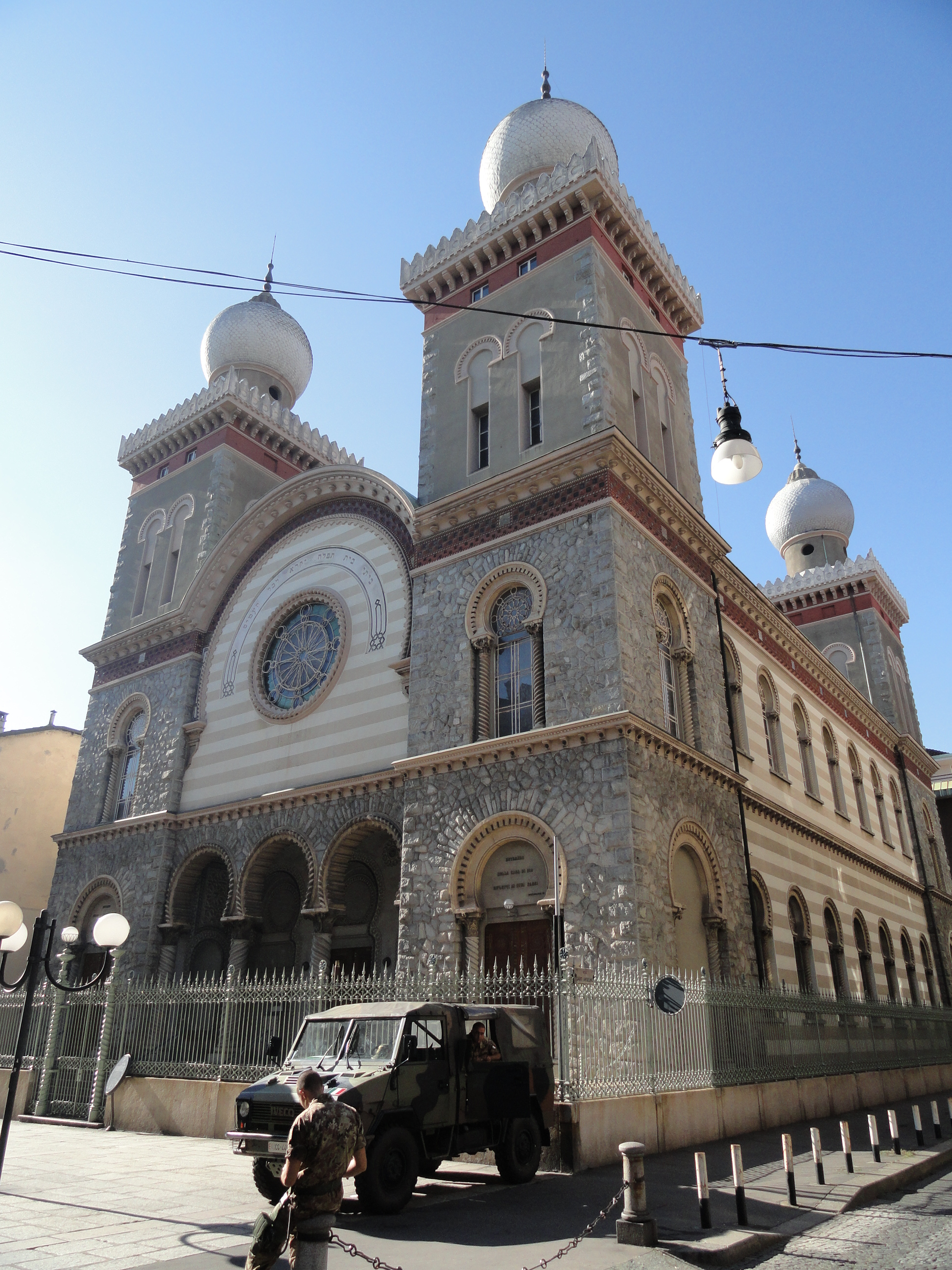 Synagogue of Turin protected by the army, September 2011.